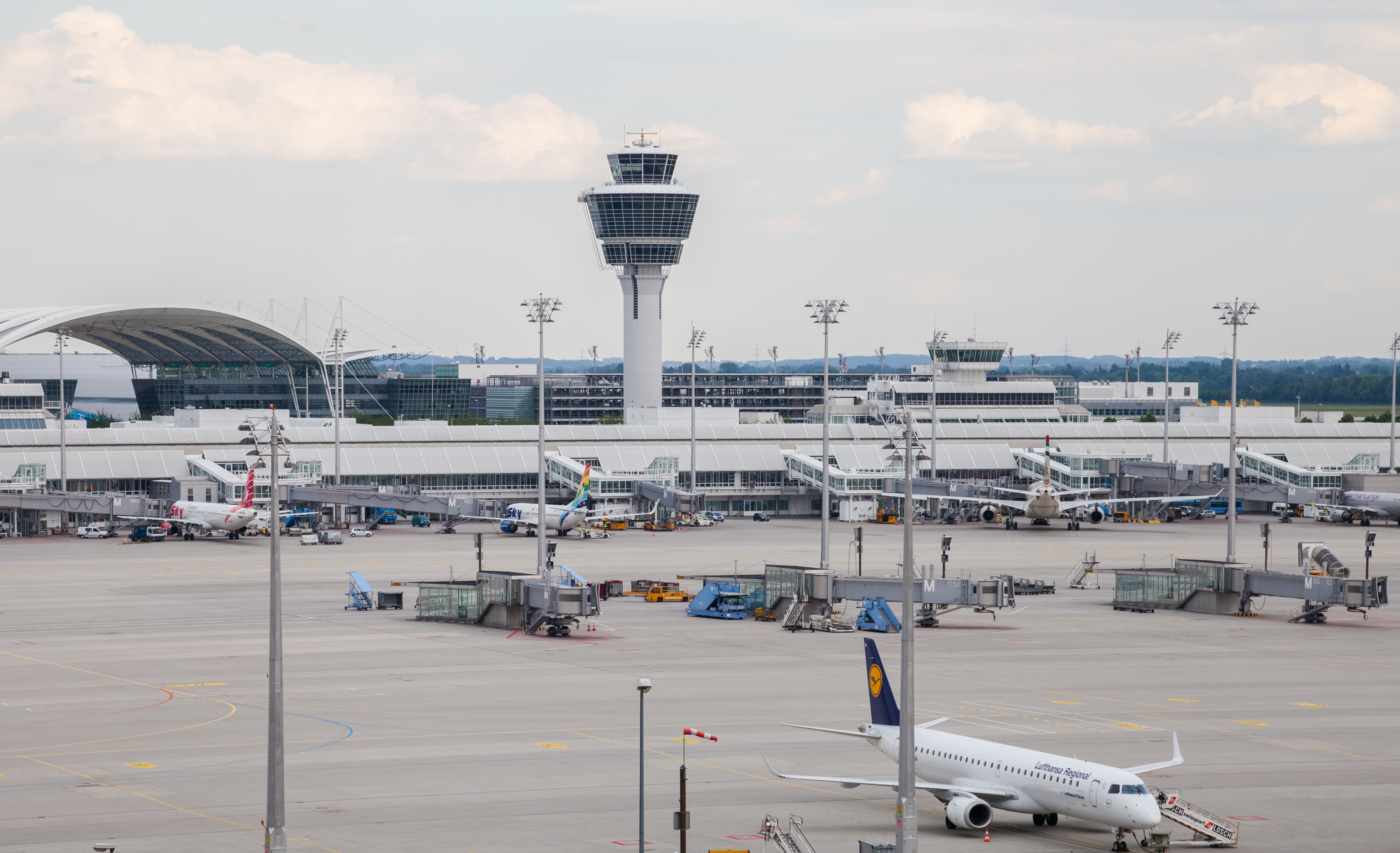 Munich Airport, Germany